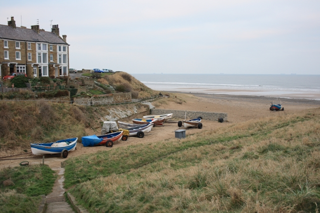 The Harbour, Marske At the end of High Street. I suppose this would be called an harbour. The houses are on Cliff Terrace.